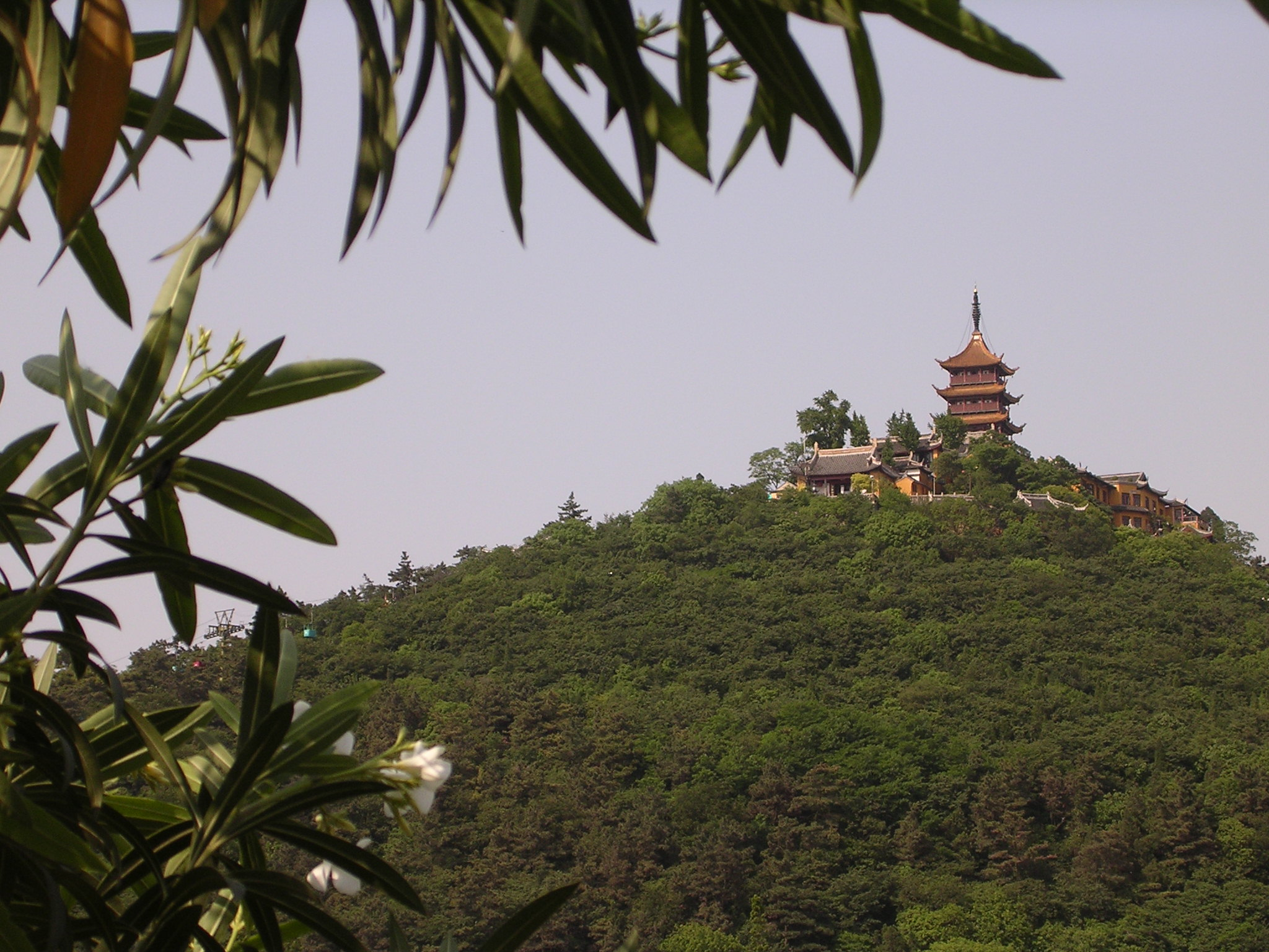 Buddhist temple on the peak of Wolf Hill in Nantong, China author: Frank Ji